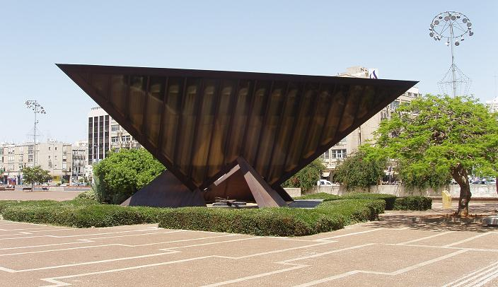 Monument "Lashoa velagvora" ("to the Holocaust and to the Bravery") (1974) by Yigal Tumarkin in Rabin Square, Tel Aviv-Yaffo.